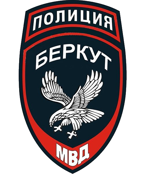 Chevron of the Berkut special police force of the National Guard of Russia